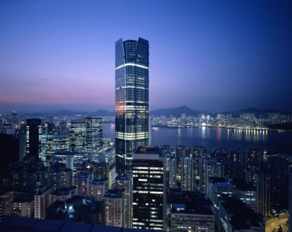 Located in Island East, One Island East has become the headquarters for Swire Properties in April 2010, following its move from Pacific Place, which had been its headquarters for the past two decades.